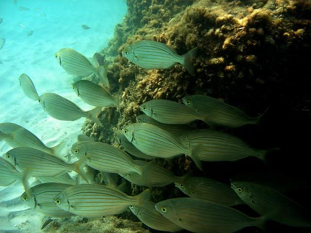 School of Sarpa salpa photographed in Alghero, Sardinia, Italy.